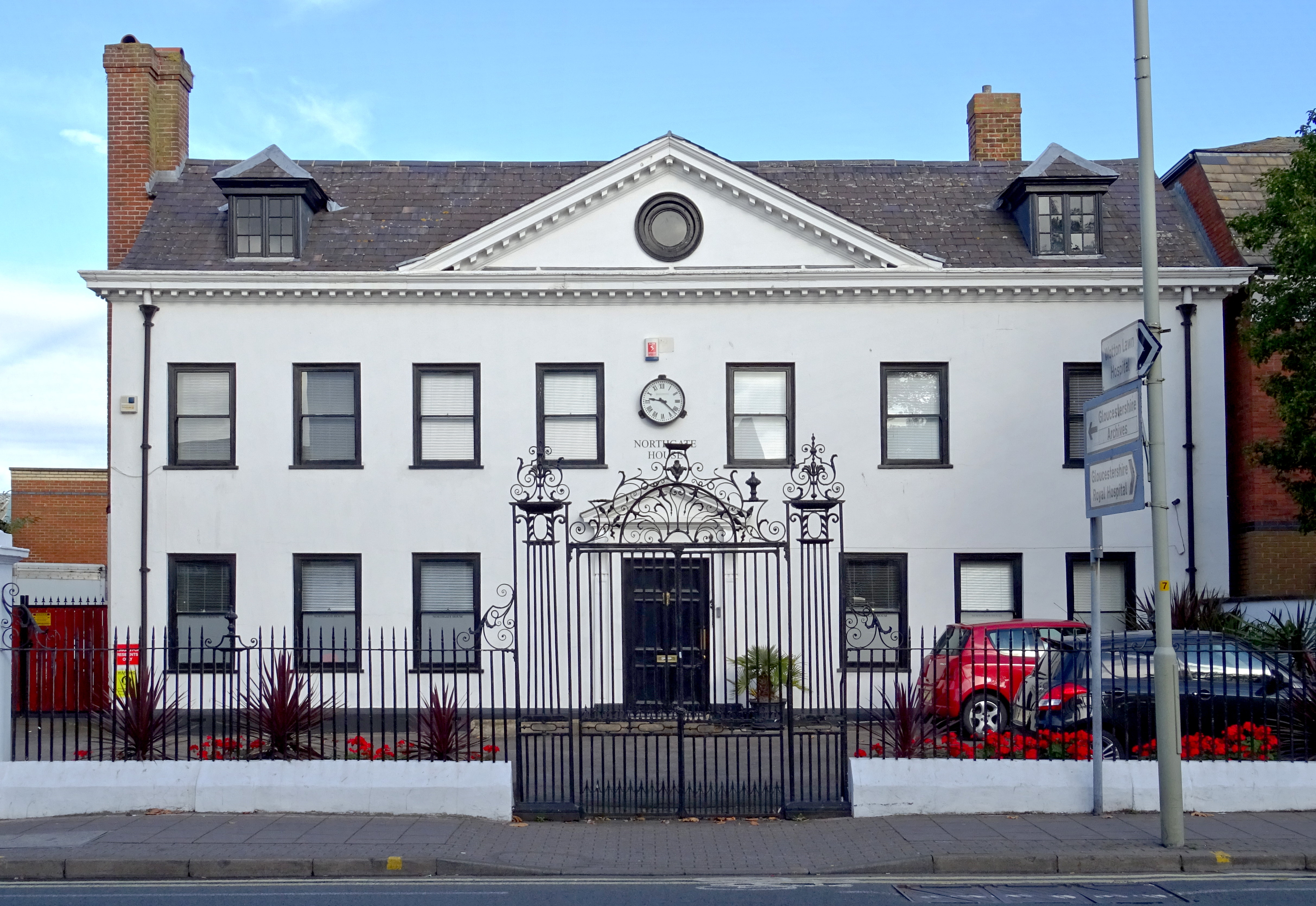 This is a photo of Northgate House